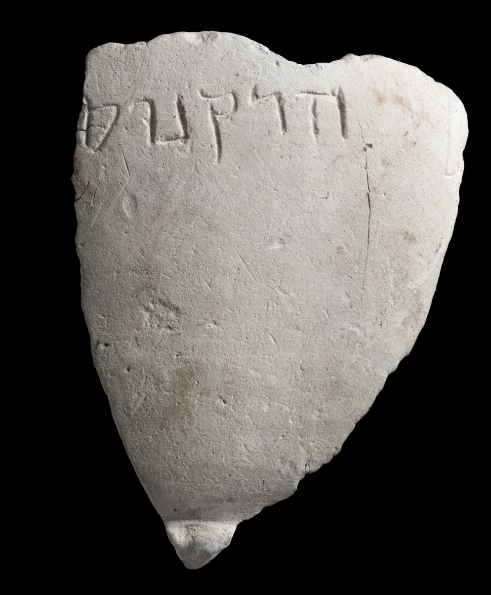 Ancient stone bowl fragments which bears the name “Hyrcanus,” was found in Givaty parking lot, Jerusalem